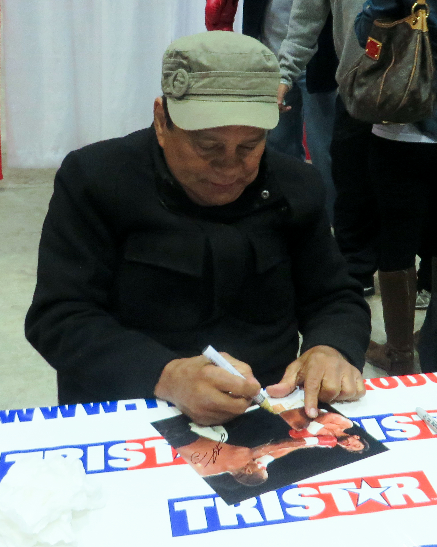 Roberto Duran signs autographs at a Houston sports collectors show sponsored by Tristar Productions in January 2014.